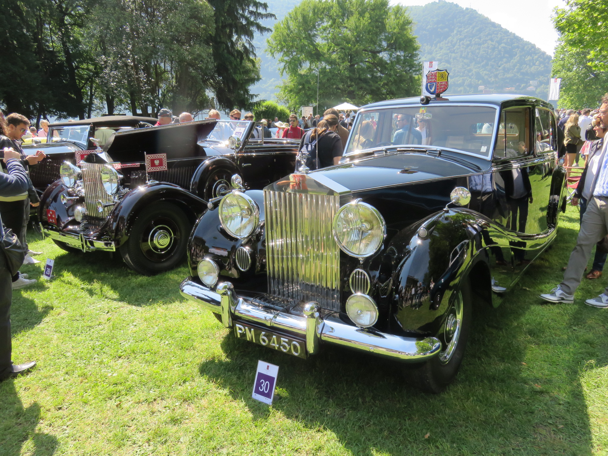 1954 Rolls-Royce Phantom IV limousine, chassis 4BP7, built for Princess Margaret with coachwork by H. J. Mulliner & Co., shown at the Concorso d’Eleganza Villa d’Este in 2015. In the background on the left is the 1937 Rolls-Royce Phantom III Vanvooren Drophead Coupe that was owned by General Wladyslaw Sikorski, the Commander-in-chief of the Polish Armed Forces during World War II